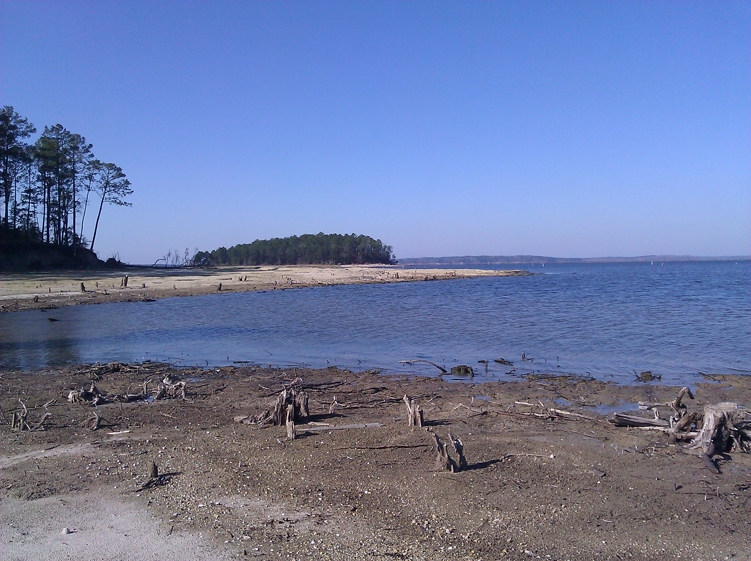 View of the Toledo Bend Reservoir from South Toledo Bend State Park near Anacoco, Louisiana.